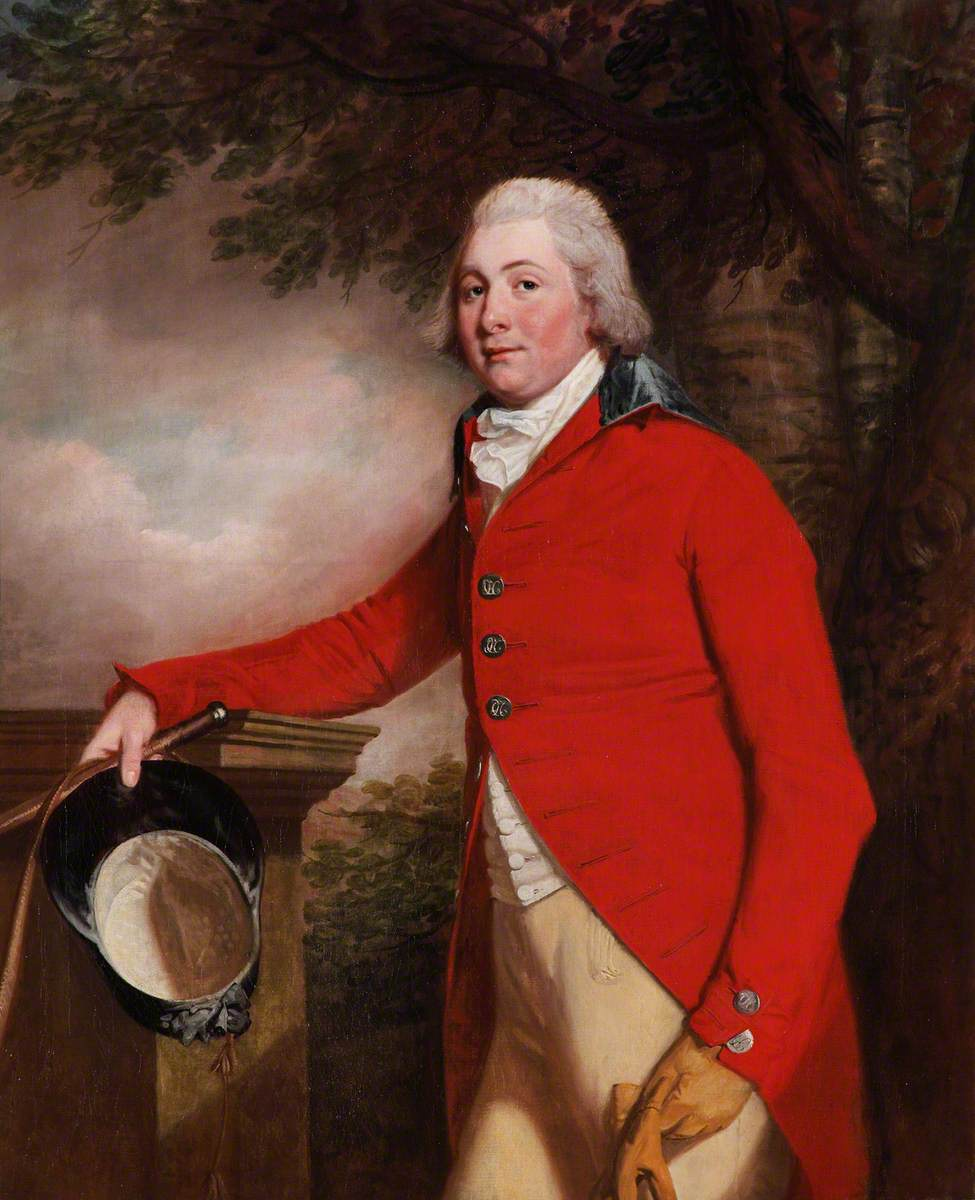 John Hungerford Penruddock (1770-1841), MP, DL, of Compton Chamberlayne; Now held by the National Trust at Clandon Park.